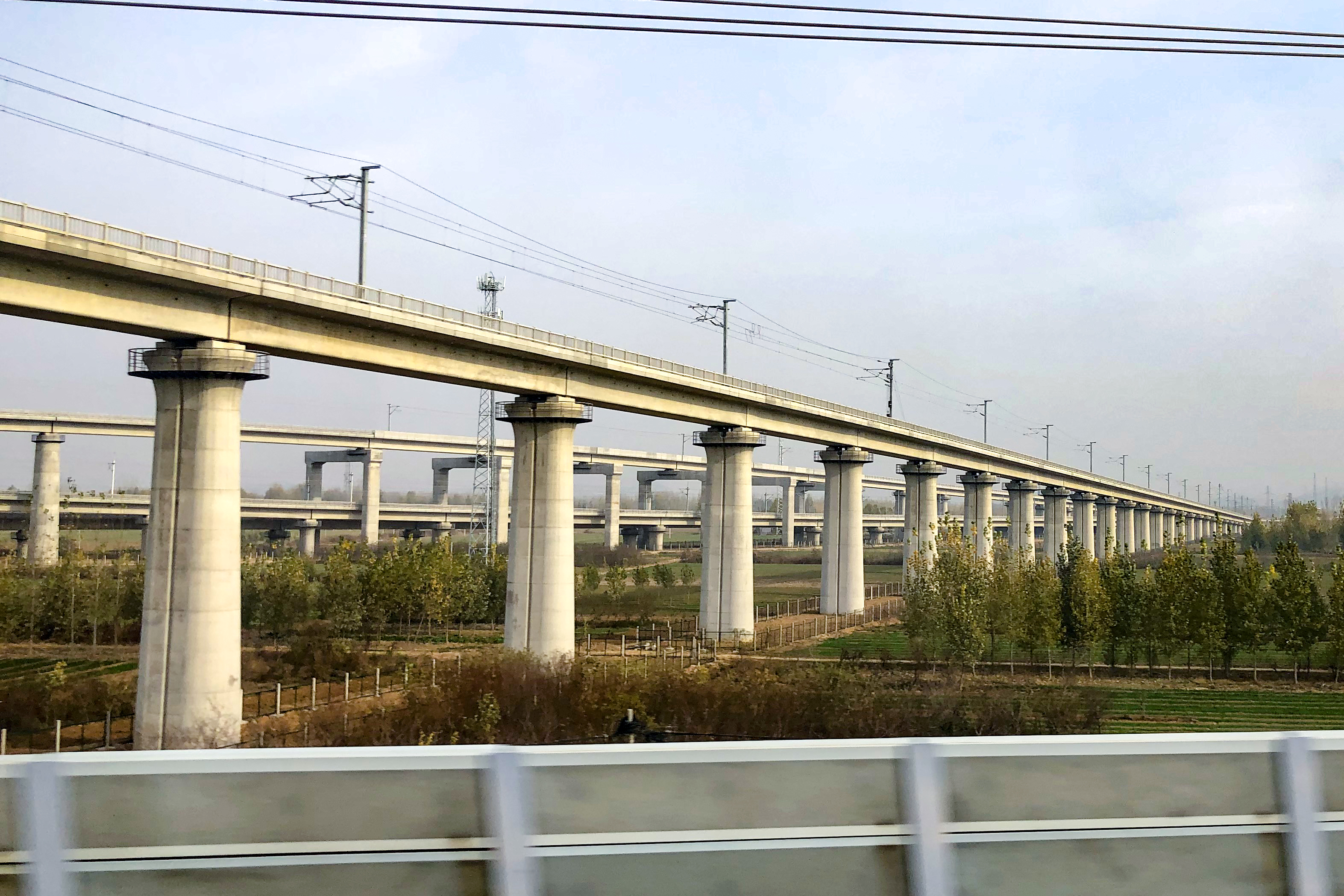 Top south from Rizhao West to Lankao South, and the northern spur lines are from Dawangzhuang Signal Base to Qufu East. By the way, VYK is out of function...